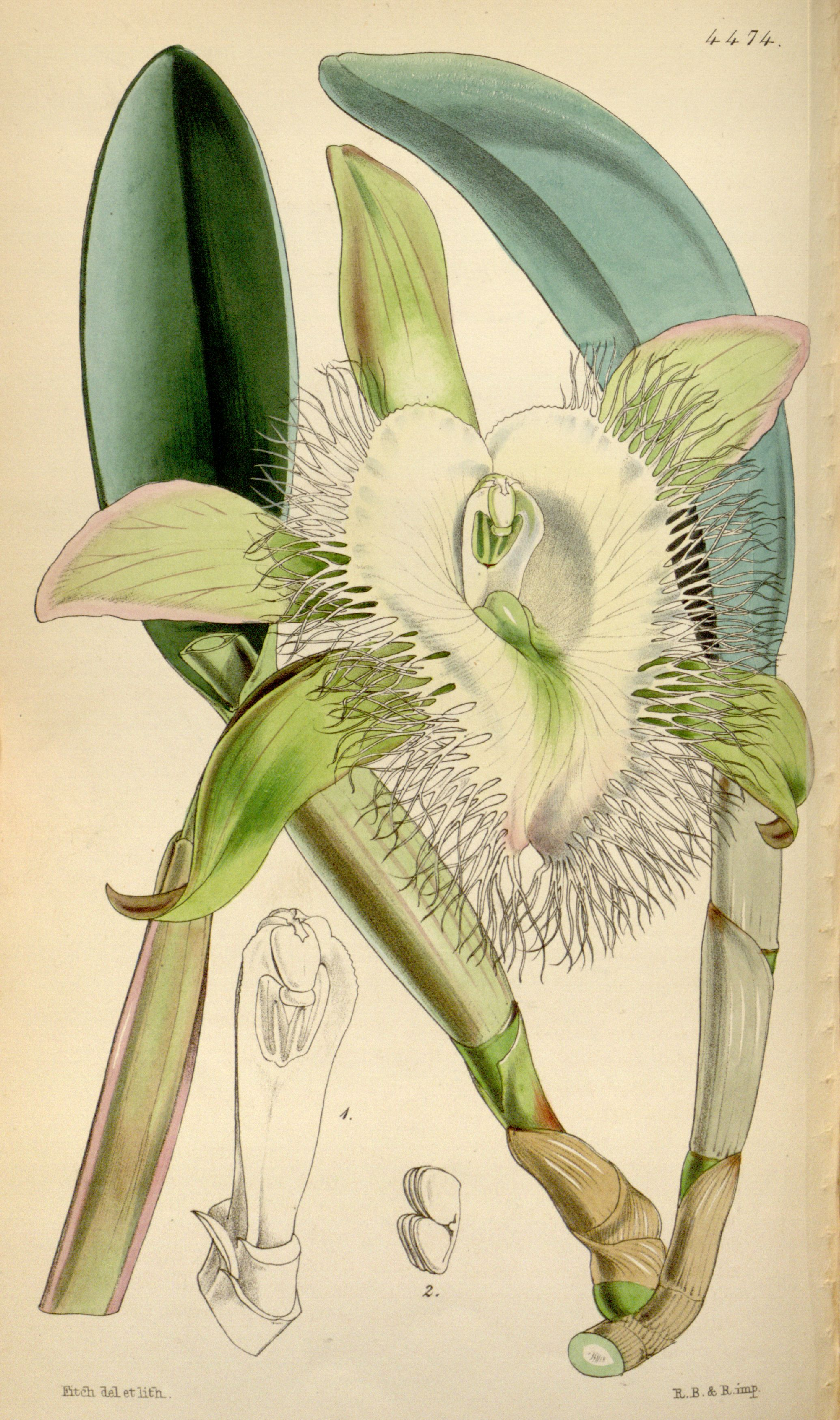 Illustration of Rhyncholaelia digbyana or Brassavola digbyana